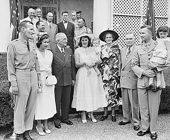 Photograph of President Harry S. Truman posing in the White House Rose Garden with First Lieutenant Henry Commiskey of the U.S. Marine Corps (right, holding his daughter, Cassandra) and his family, on the occasion of Lt. Commiskey's receiving the Medal of Honor for heroism in Korea.